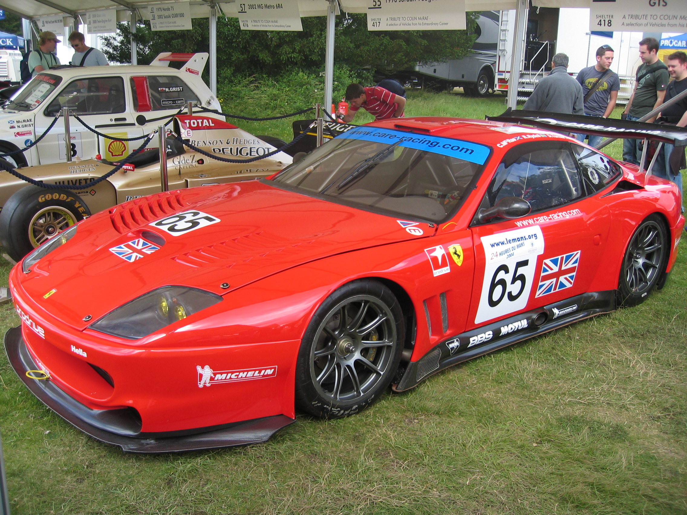 From Goodwood Festival of Speed 2008